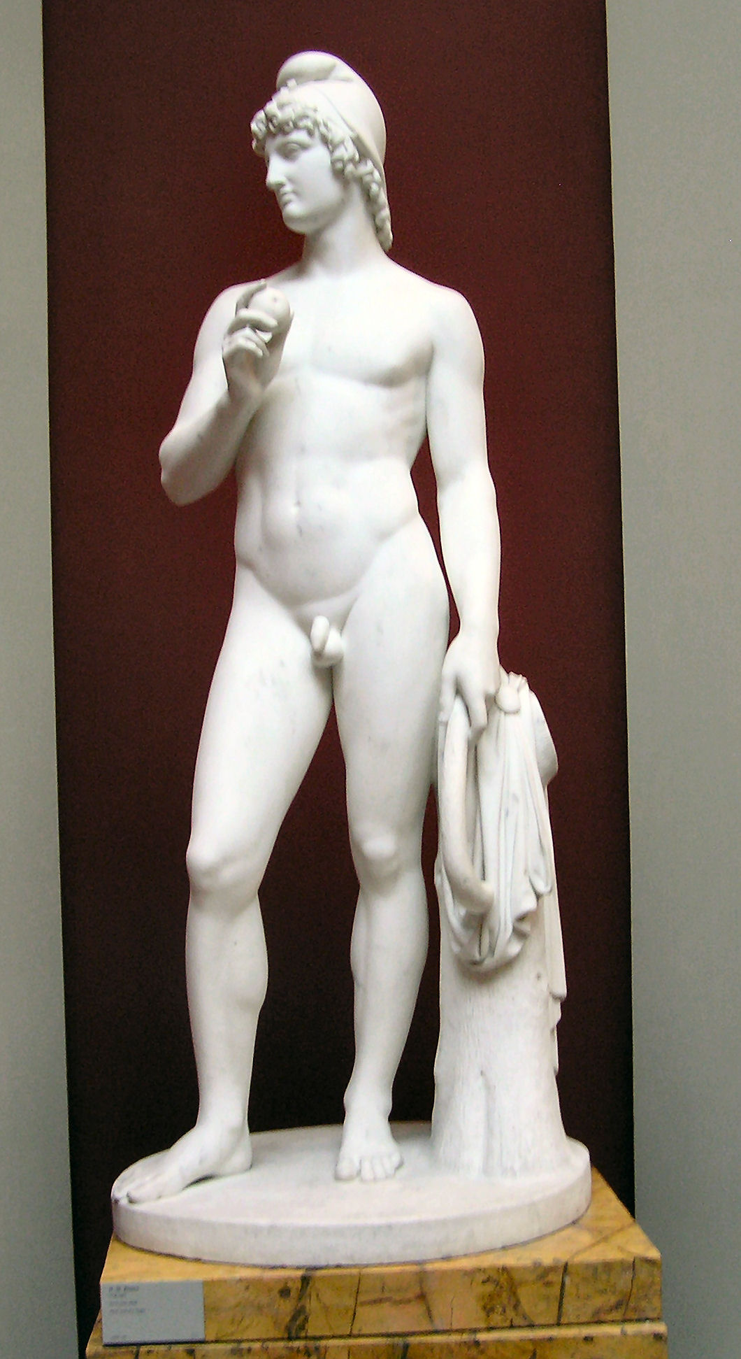 Herman Wilhelm Bissen (1798–1868), Paris with the apple, 1830-1840, Glyptoteket